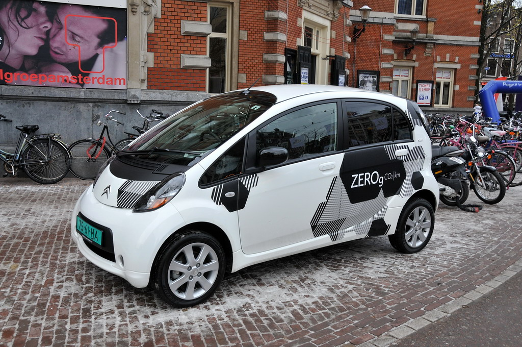 Citroën C-Zero electric car in Amsterdam.